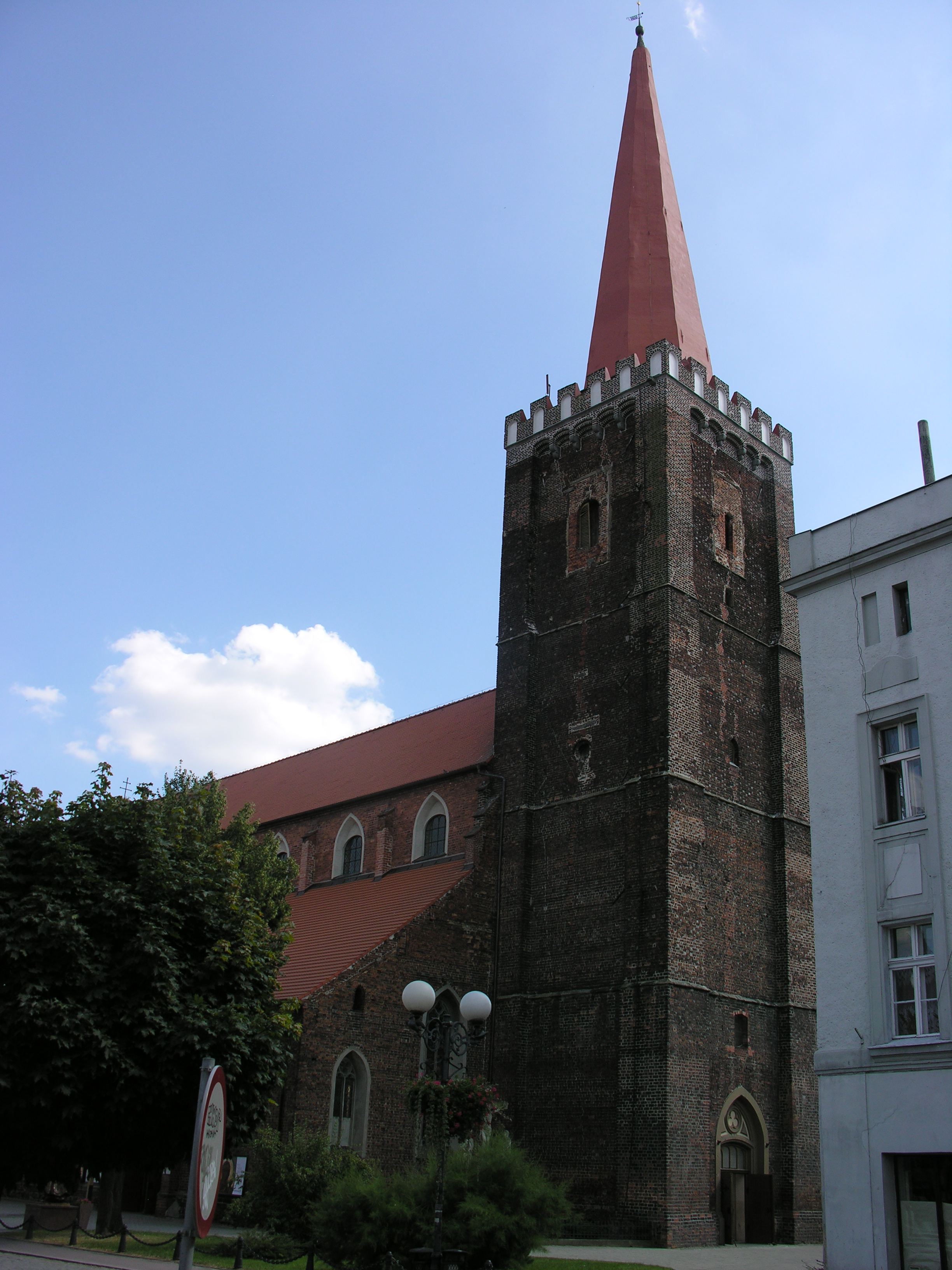 Kościół św. Michała Archanioła w Grodkowie